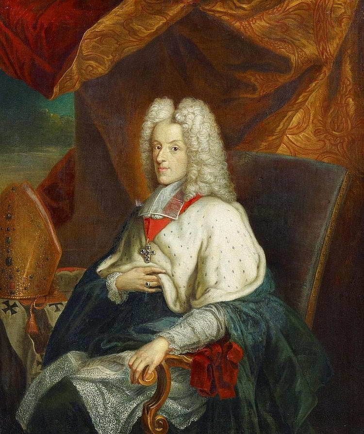 Portrait of Joseph Clemens of Bavaria (1671-1723)